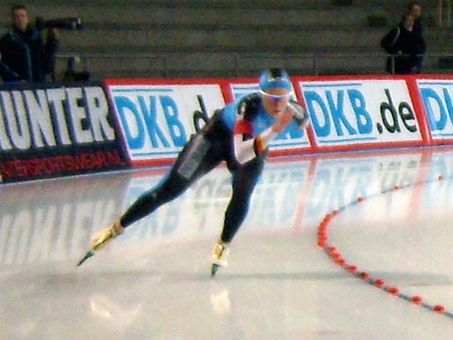 Lucille Opitz at the German Single Distanz Championship 2009 in Berlin, Germany, after 3000 m